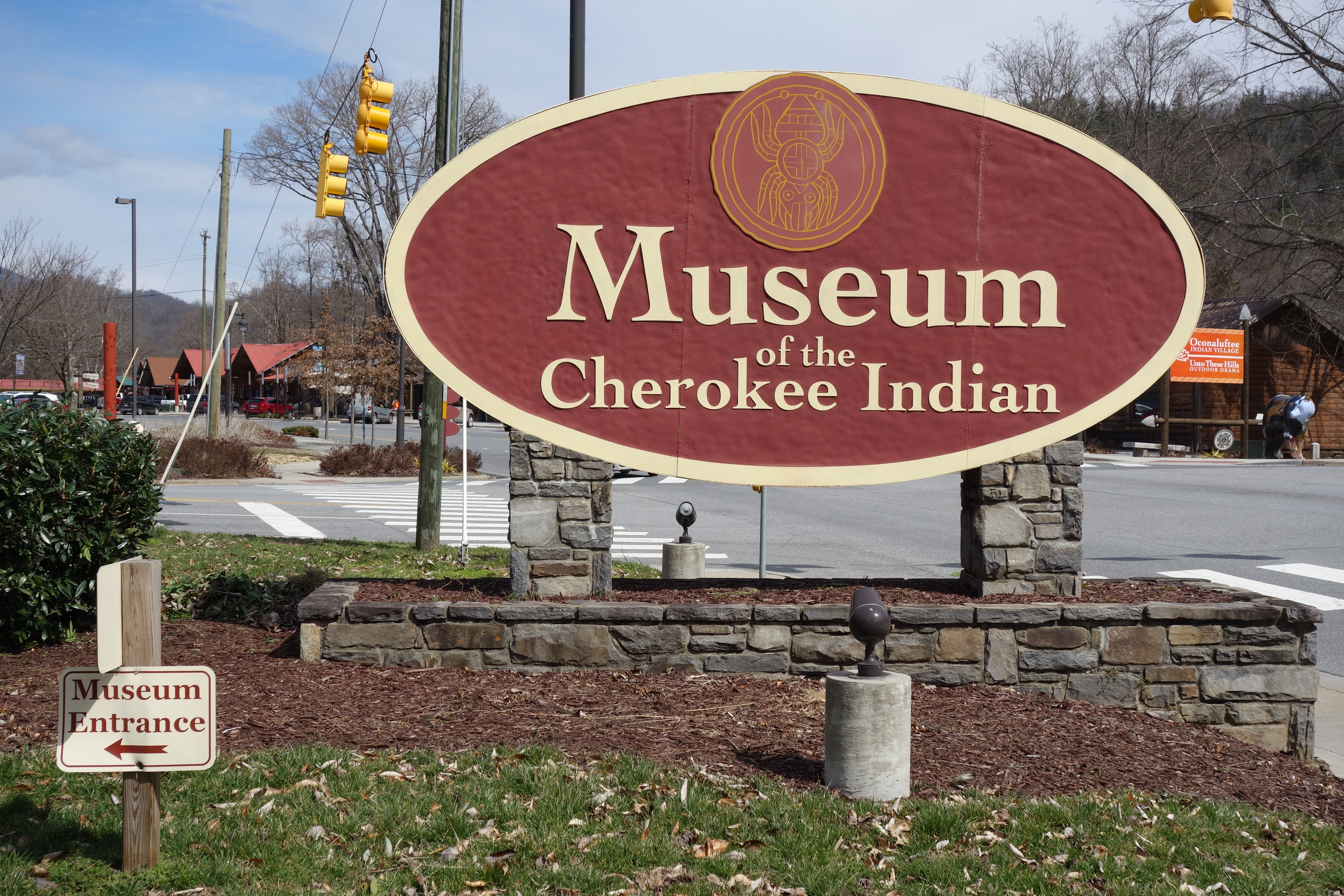 Cherokee Museum Sign